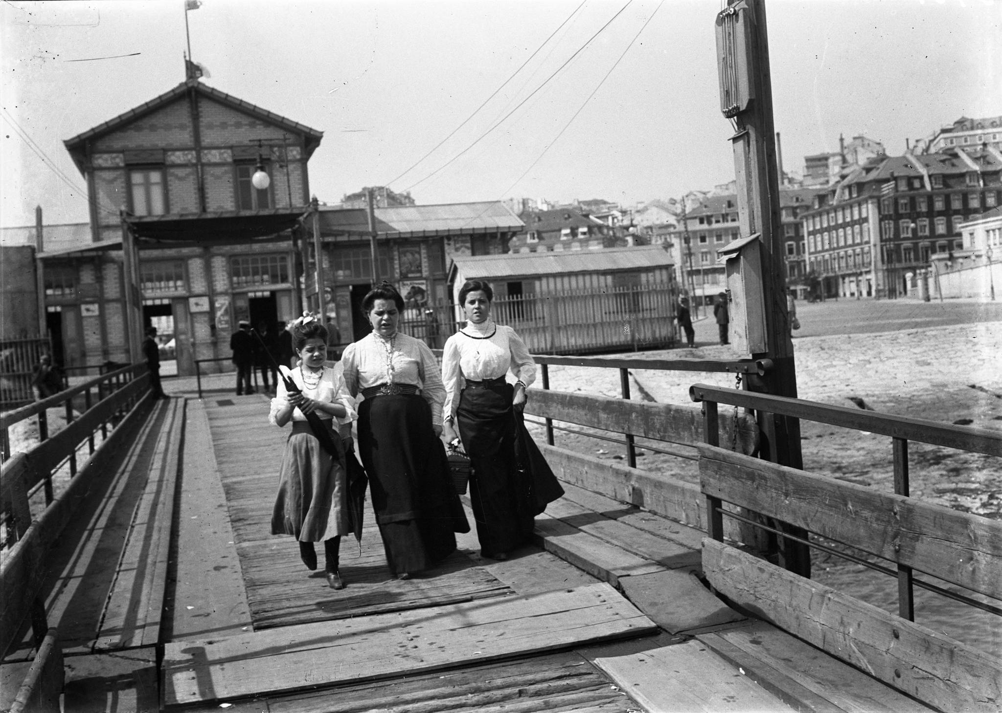 The wharf at Cais do Sodré, Lisbon, 1912.